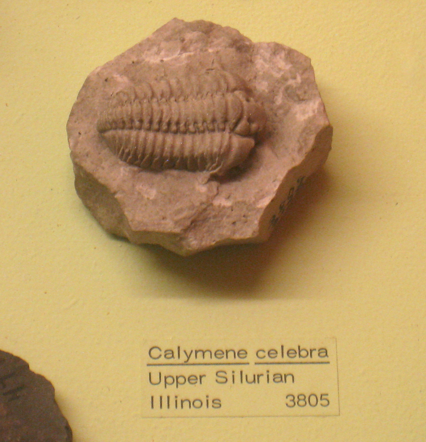 Calymene cerebra. Exhibit Museum of Natural History, University of Michigan.